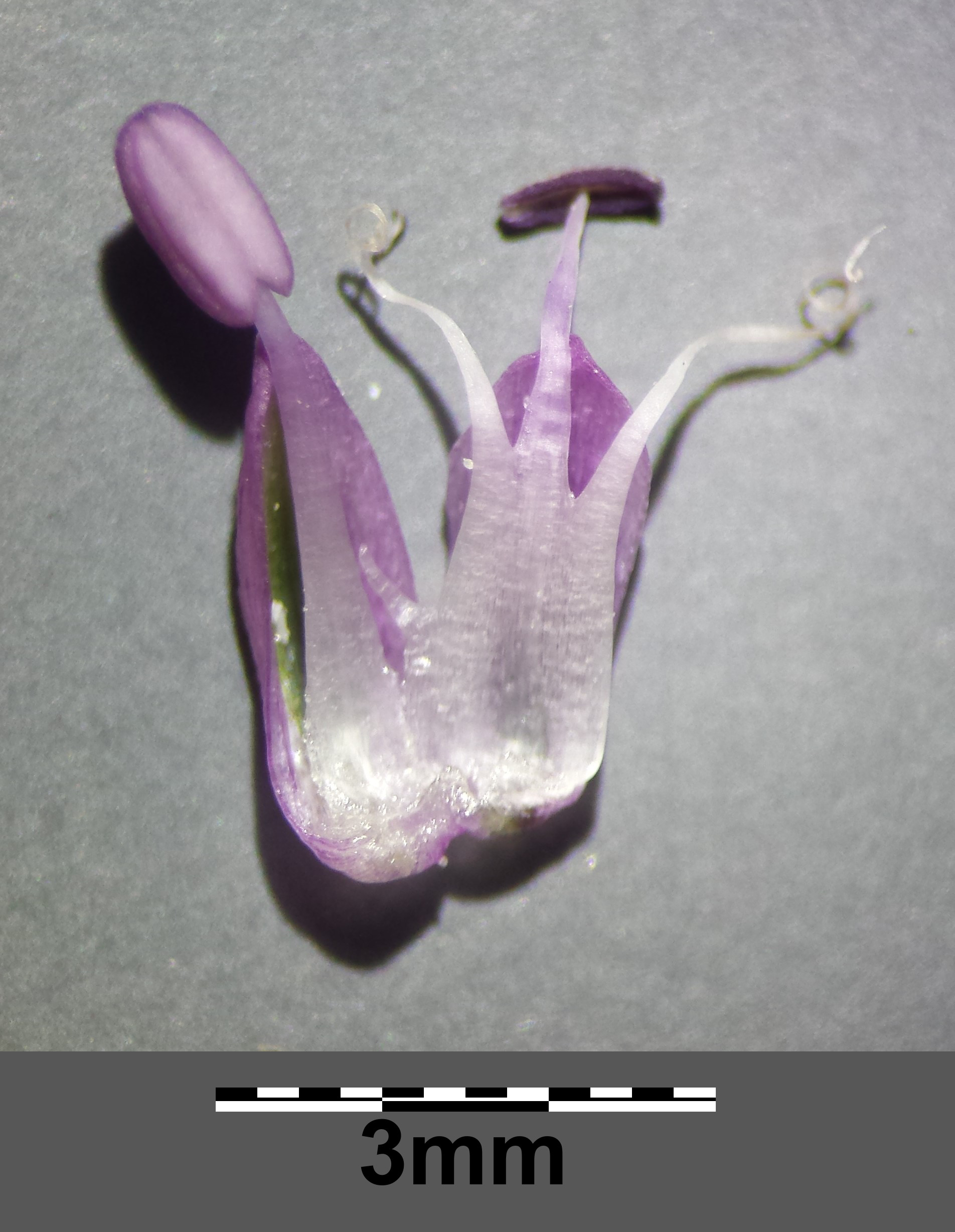 Perigone leaves with stamina (inner view) Taxonym: Allium vineale ss Fischer et al. EfÖLS 2008 ISBN 978-3-85474-187-9 Location: Neue Donau, Vienna-Floridsdorf - ca. 160 m a.s.l. Habitat: dry meadows